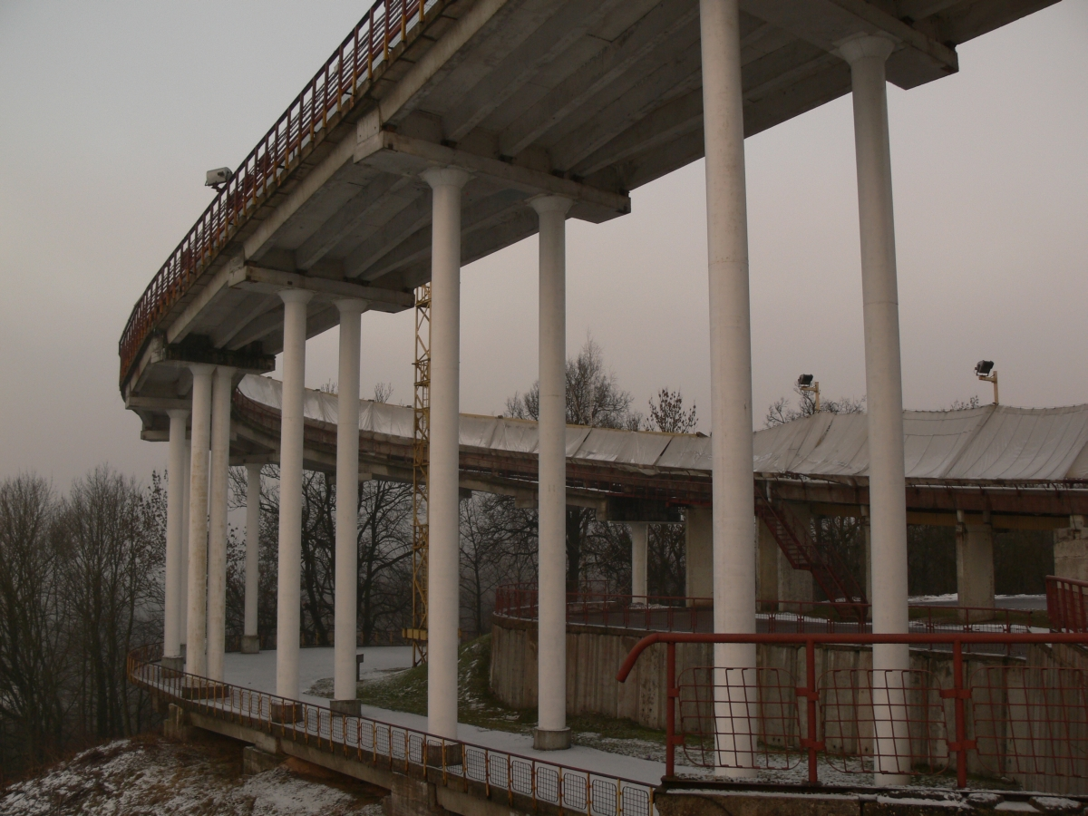 Bobsleigh track in Sigulda, Latvia. Read more on Latvian blog with information about Latvia